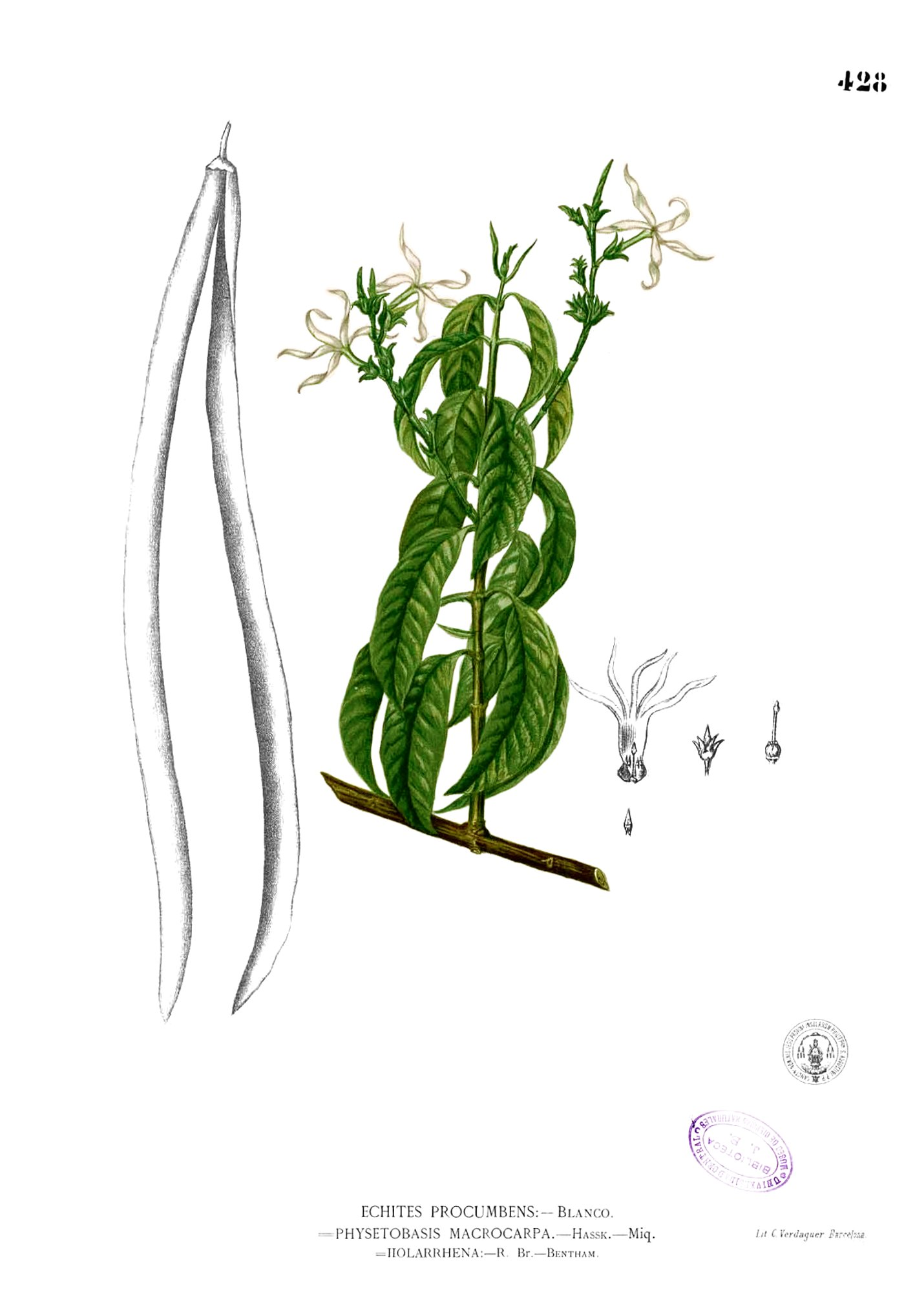 Plate from book